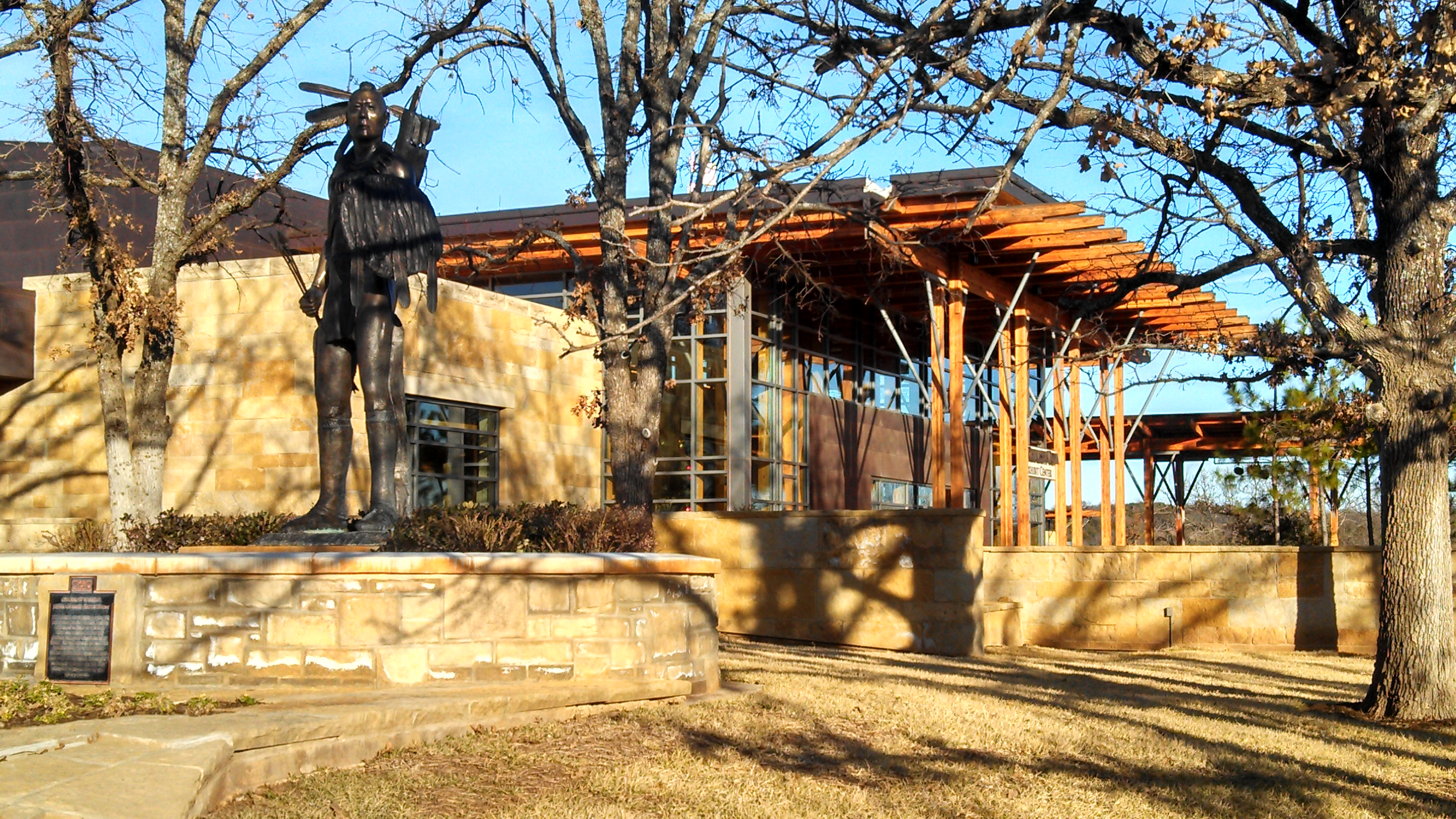 Chickasaw Cultural Center near Sulphur, Oklahoma, December 2013